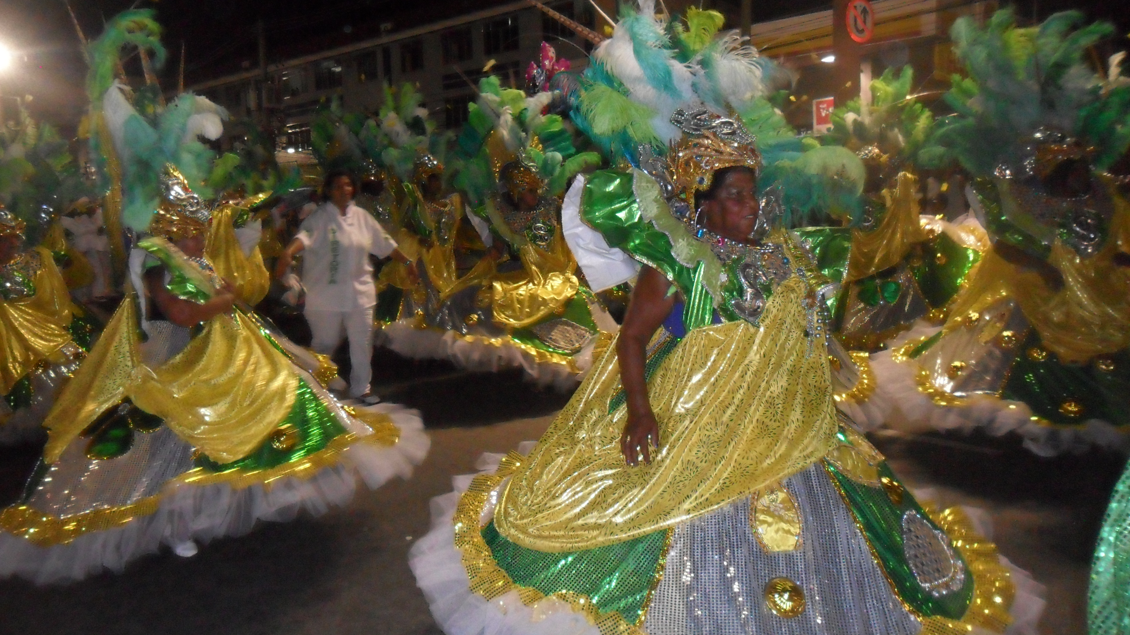 GRES Império da Uva